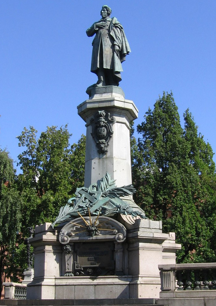 Adam Mickiewicz Monument, by Cyprian Godebski, Warsaw